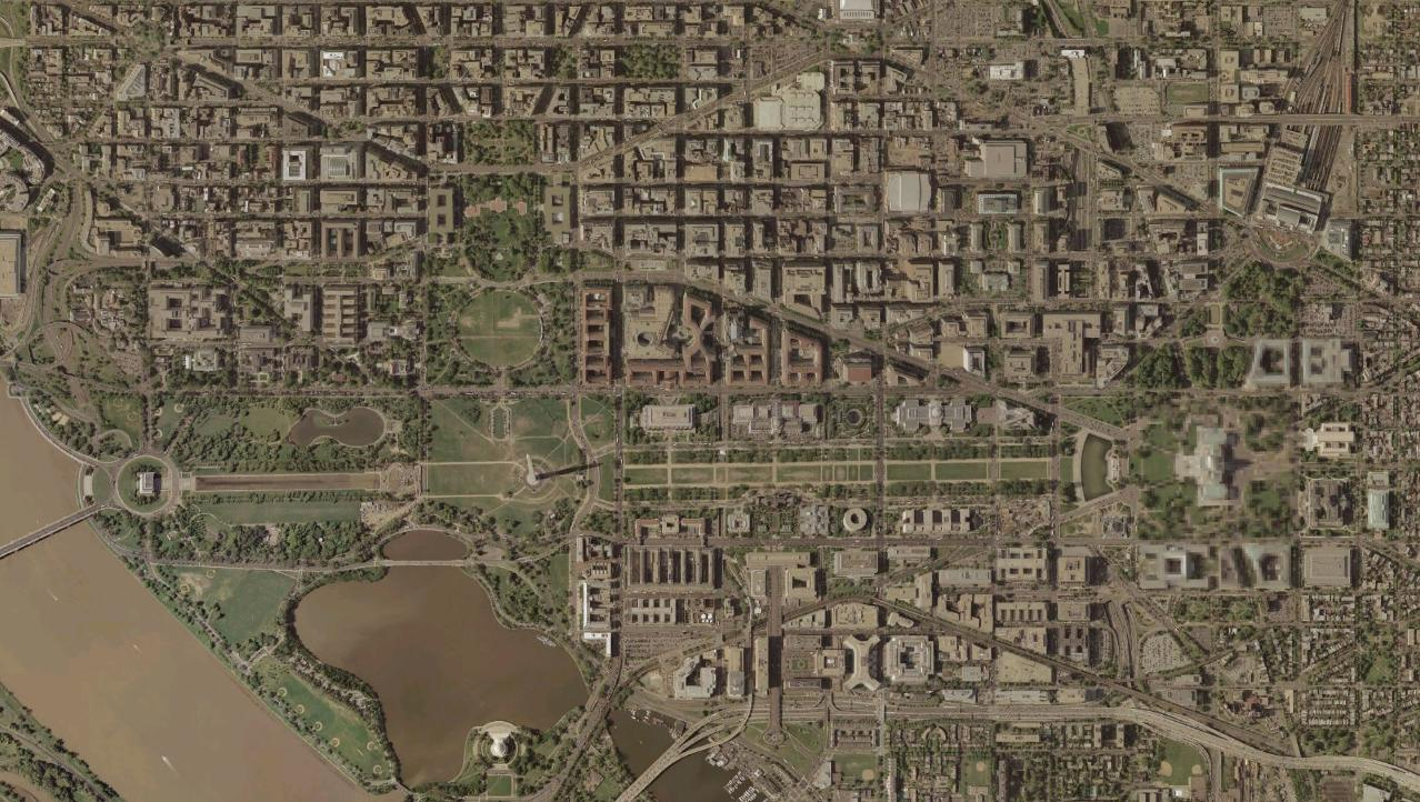 Downtown Washington DC. Note - this image just uploaded for the purposes of a discussion regarding a map of the same area. I intend to have this image deleted once those discussions are completed. If you'd like to use this image in an article, please talk to me - I'm sure we can come up with a better image to fit your needs.